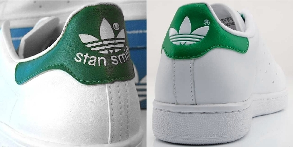 This file shows two different green heel parts of the adidas stan smith and the adidas stan smith II, respectively.